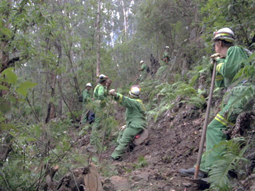 Building a fire handtrail